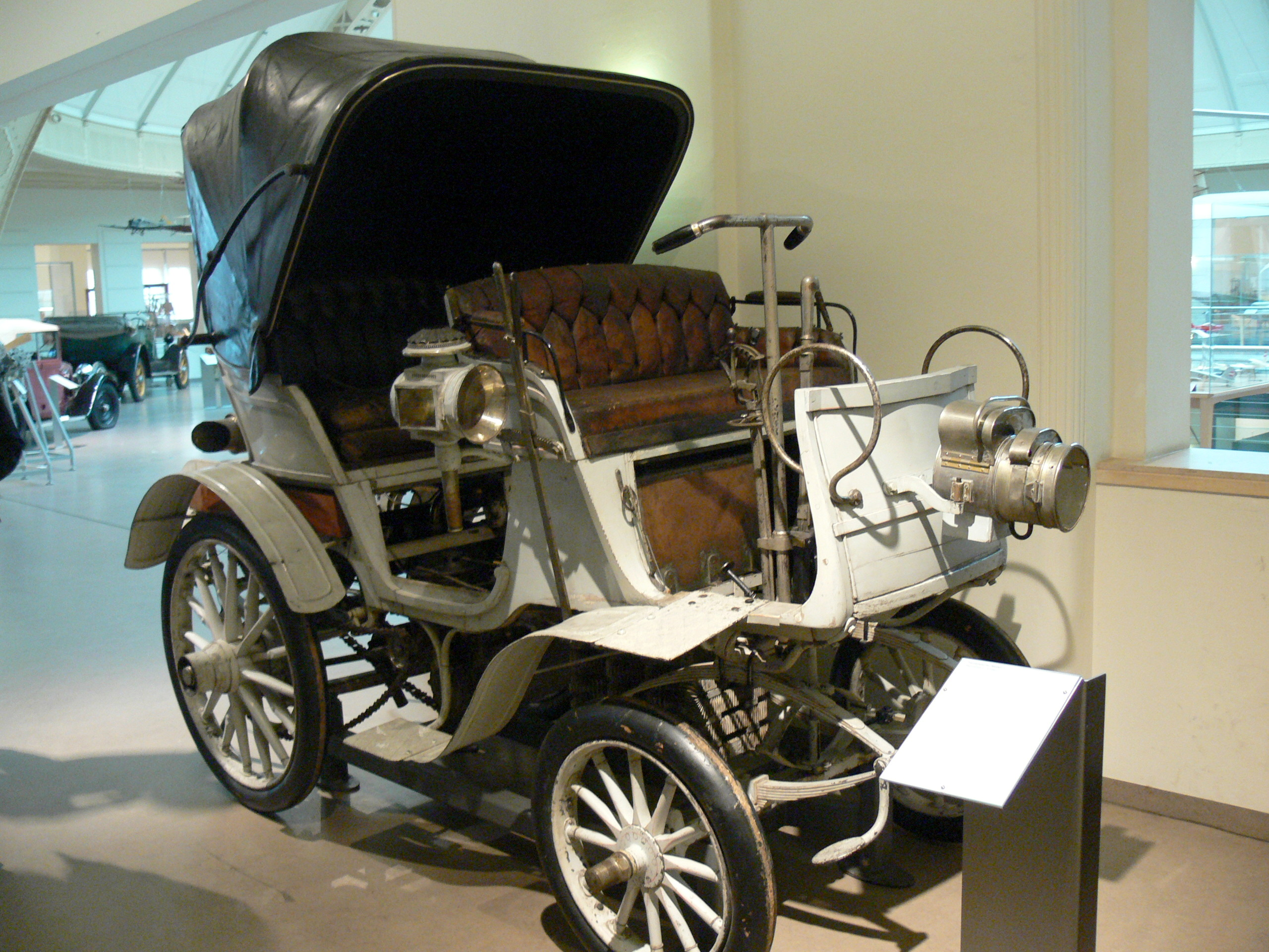 Technical Museum Vienna. Nesselsdorf model II vehicle ( 1900 ).